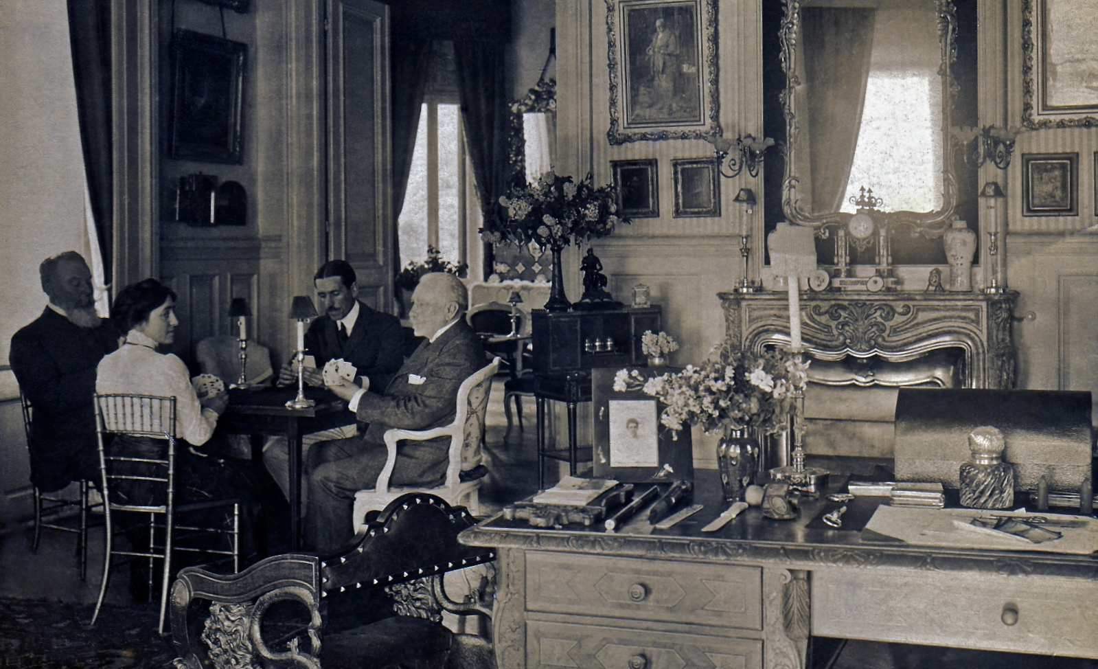 A group playing cards at Villa Arbelaiz, the residence-in-exile of Tirso de Olazábal y Lardizábal, Count of Arbelaiz, in Saint-Jean-de-Luz. Clockwise around the table from left: Comte Olivier d'Elva (1854-1926), José Joaquín de Olazábal, Tirso de Olazábal and Blanca de Olazábal.